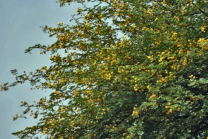 Babool Acacia nilotica at Hodal in Faridabad District of Haryana, India.